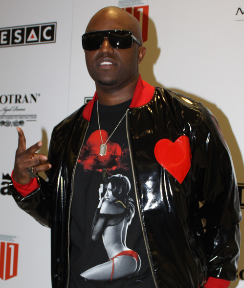 Rico Love Photo